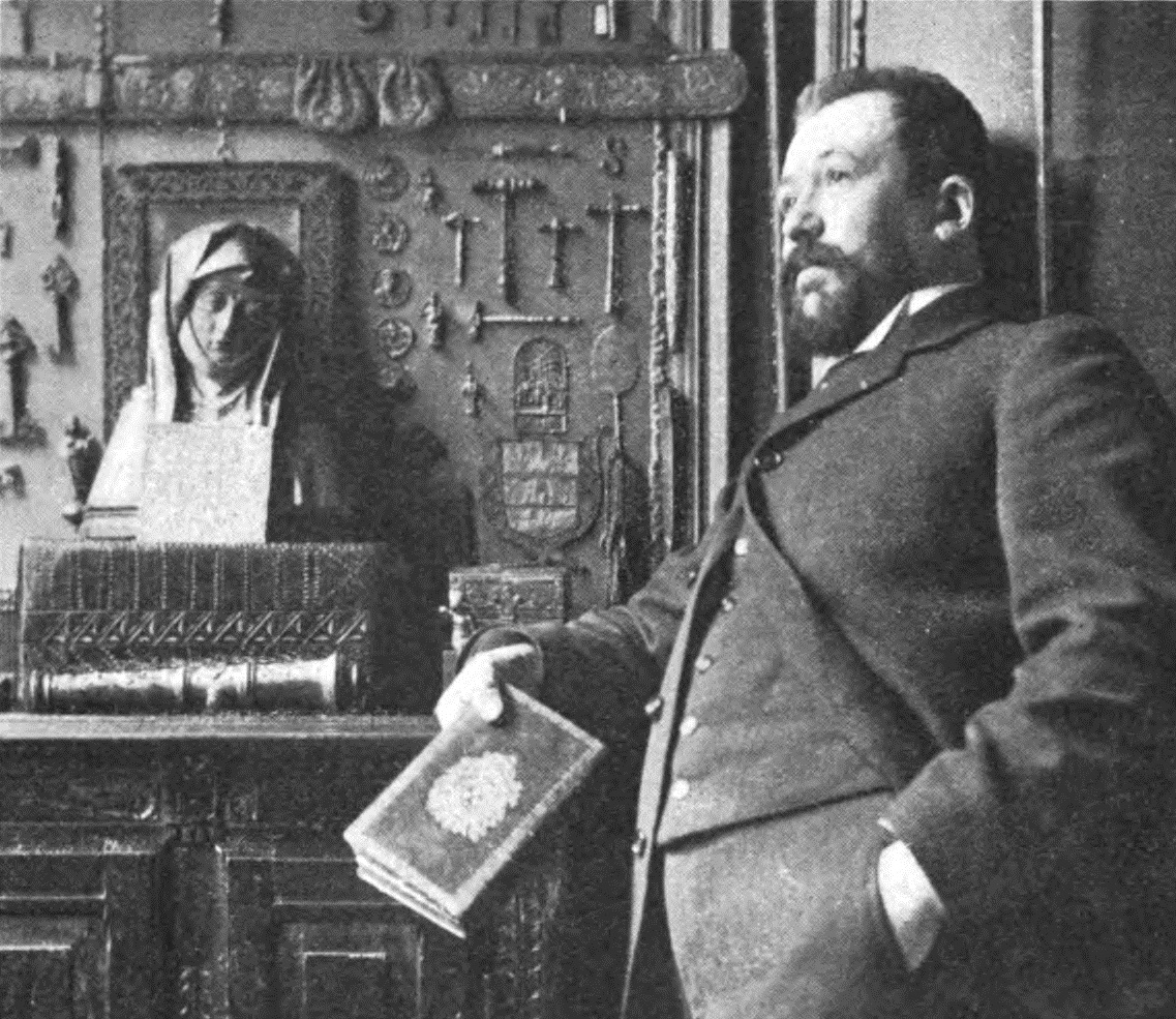 Henri Lavedan